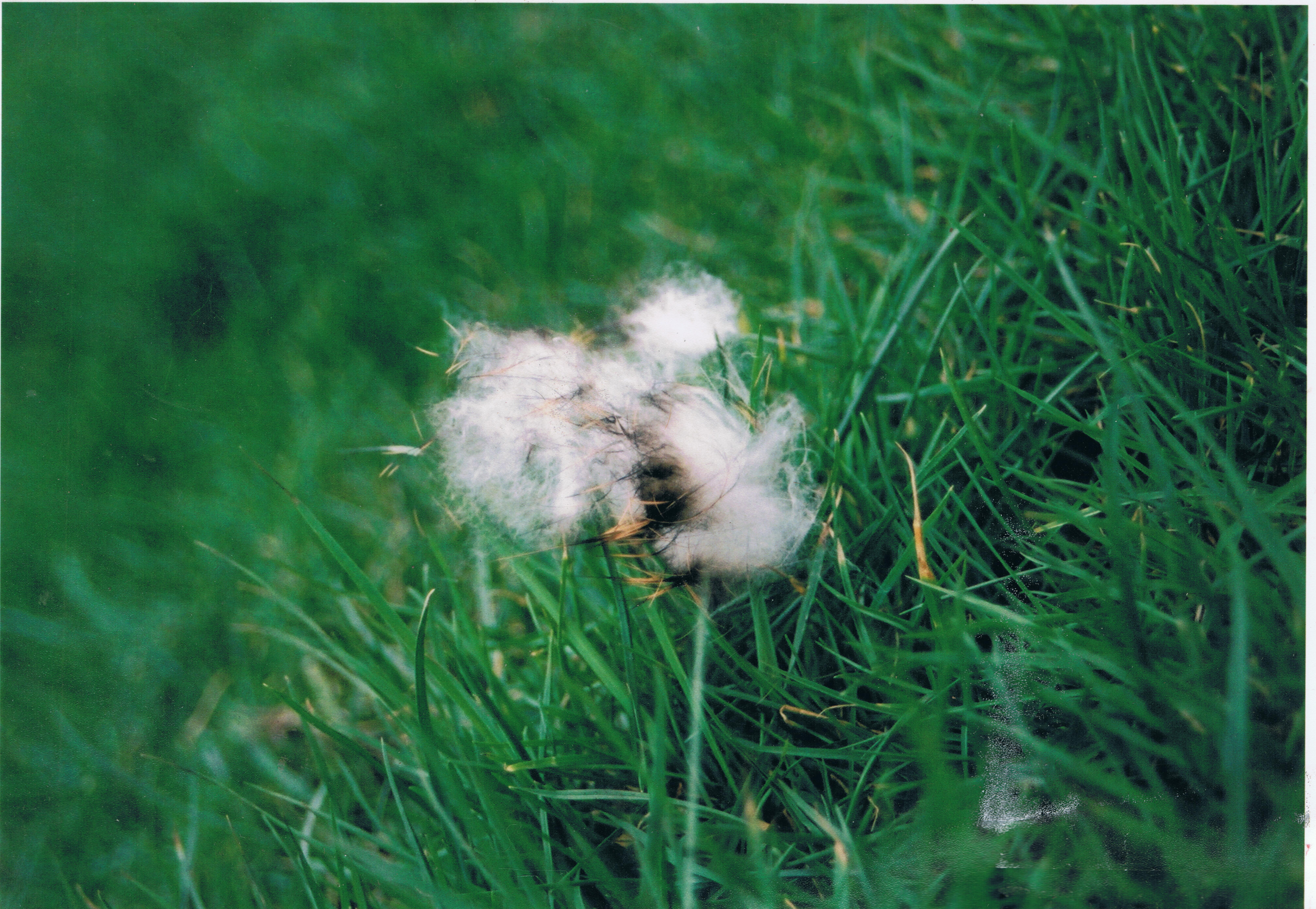 Scan of a photo (Scan and photo by me, R. de Salis, Rodolph (talk) 22:54, 16 February 2015 (UTC)) of a bit of hare fur from the last Waterloo Cup meet, February, 2005.